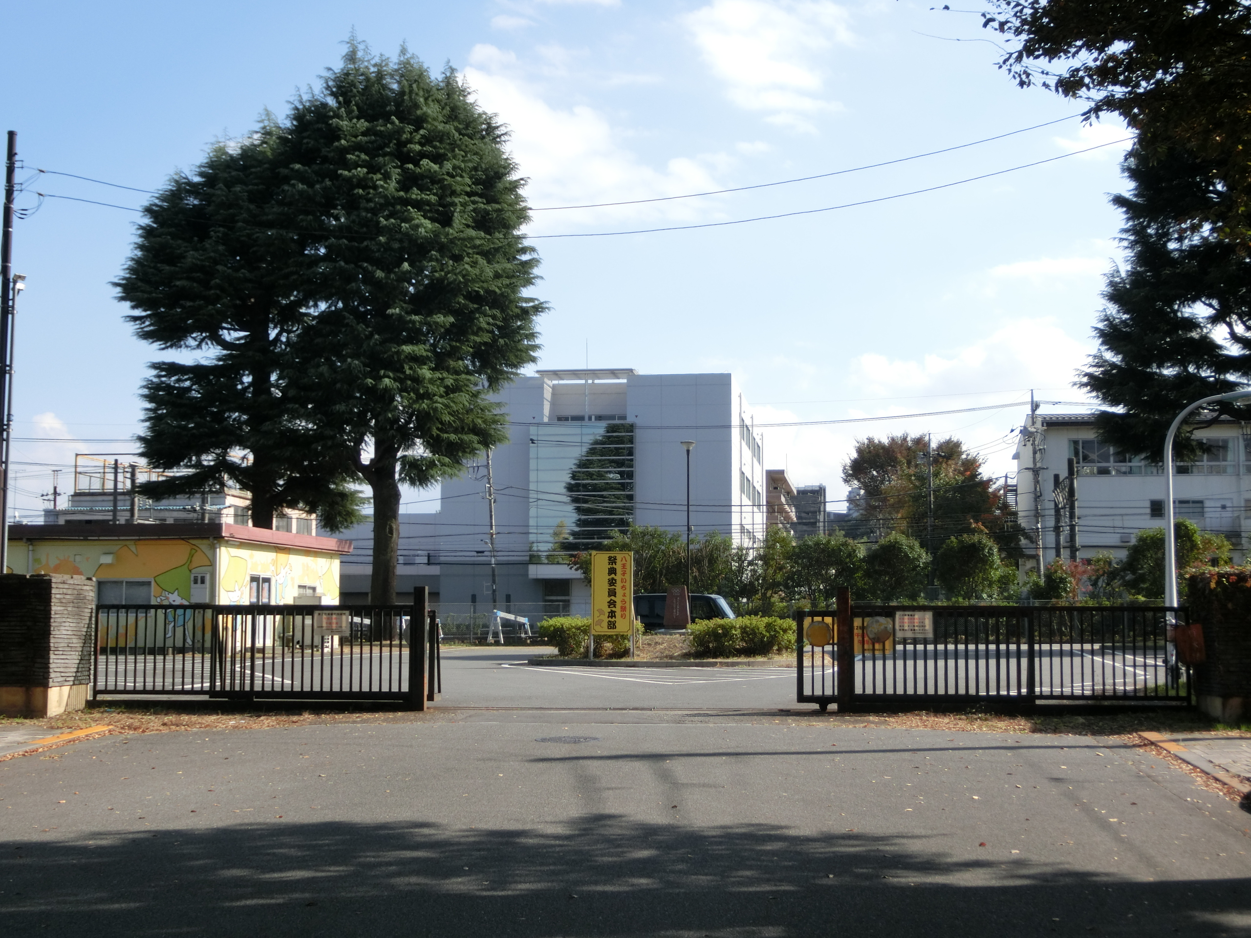 Ruins of Higashi-Asakawa Station